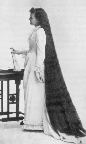 Martha Matilda Harper, depicted in her most iconic pose, showing up the hair which was the greatest single advertisement for her hair care salon franchise.